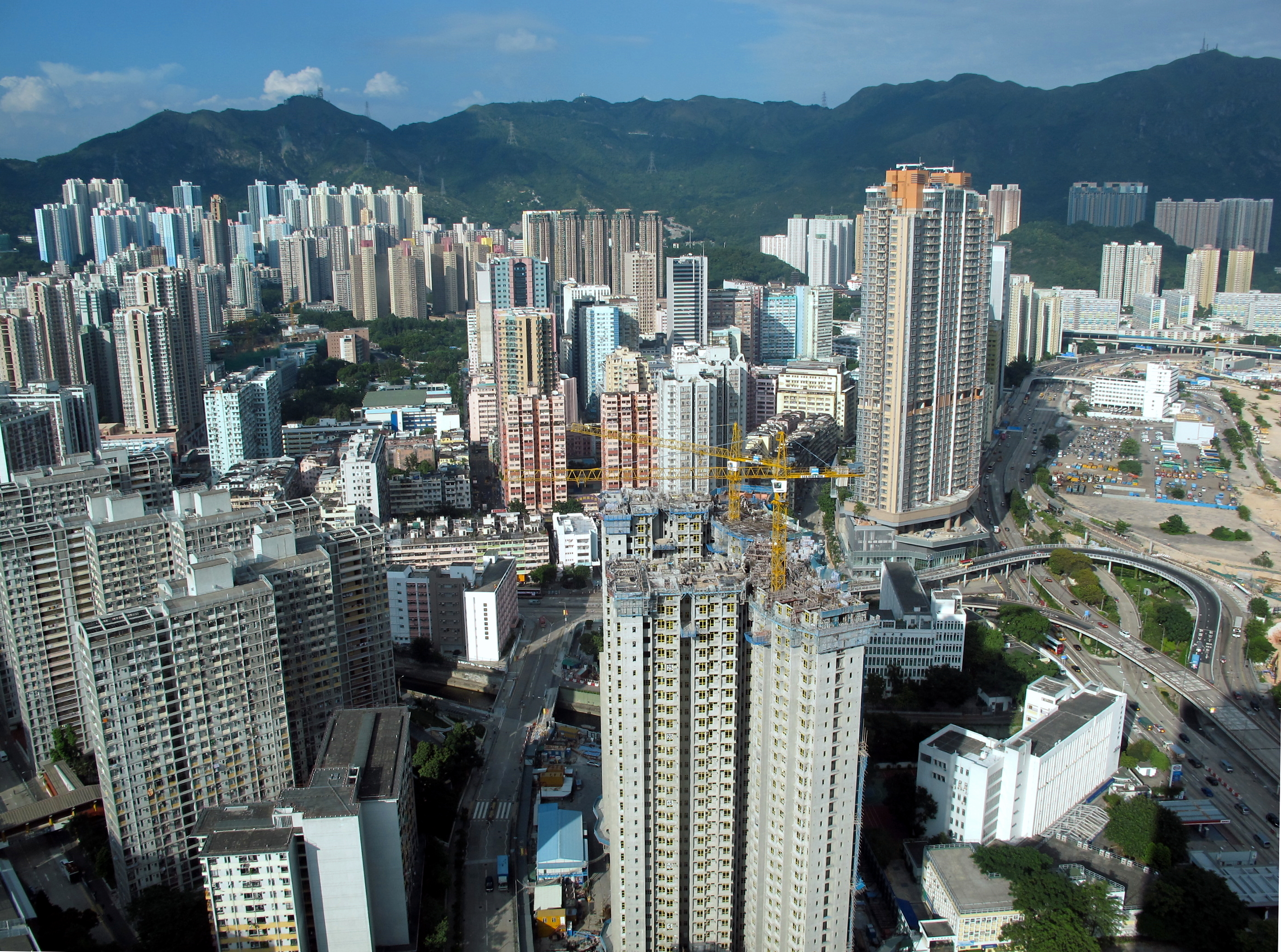 San Po Kong